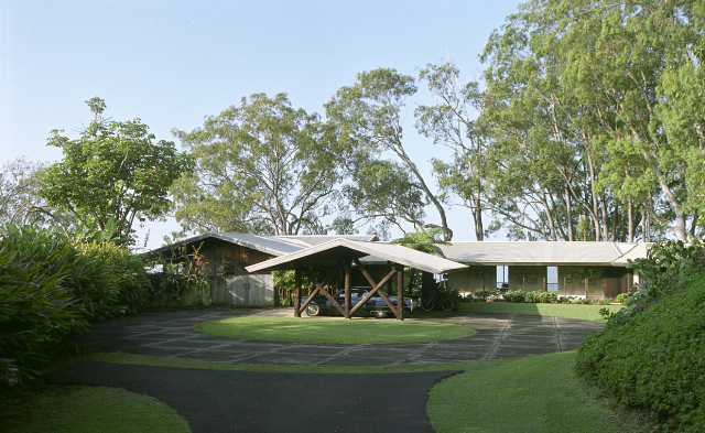 View from driveway of Liljestrand House, 3300 Tantalus Drive, Honolulu, Hawaii, 96822, USA. On National Register of Historic Places